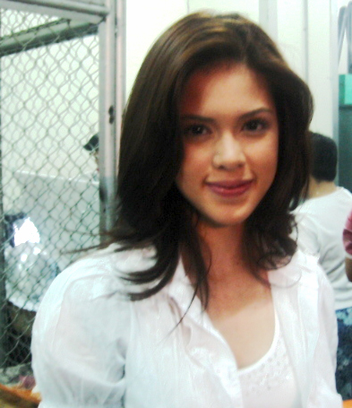 Shaina Magdayao backstage at ASAP 2006, taken by Rayka Estal on November 12 2006.